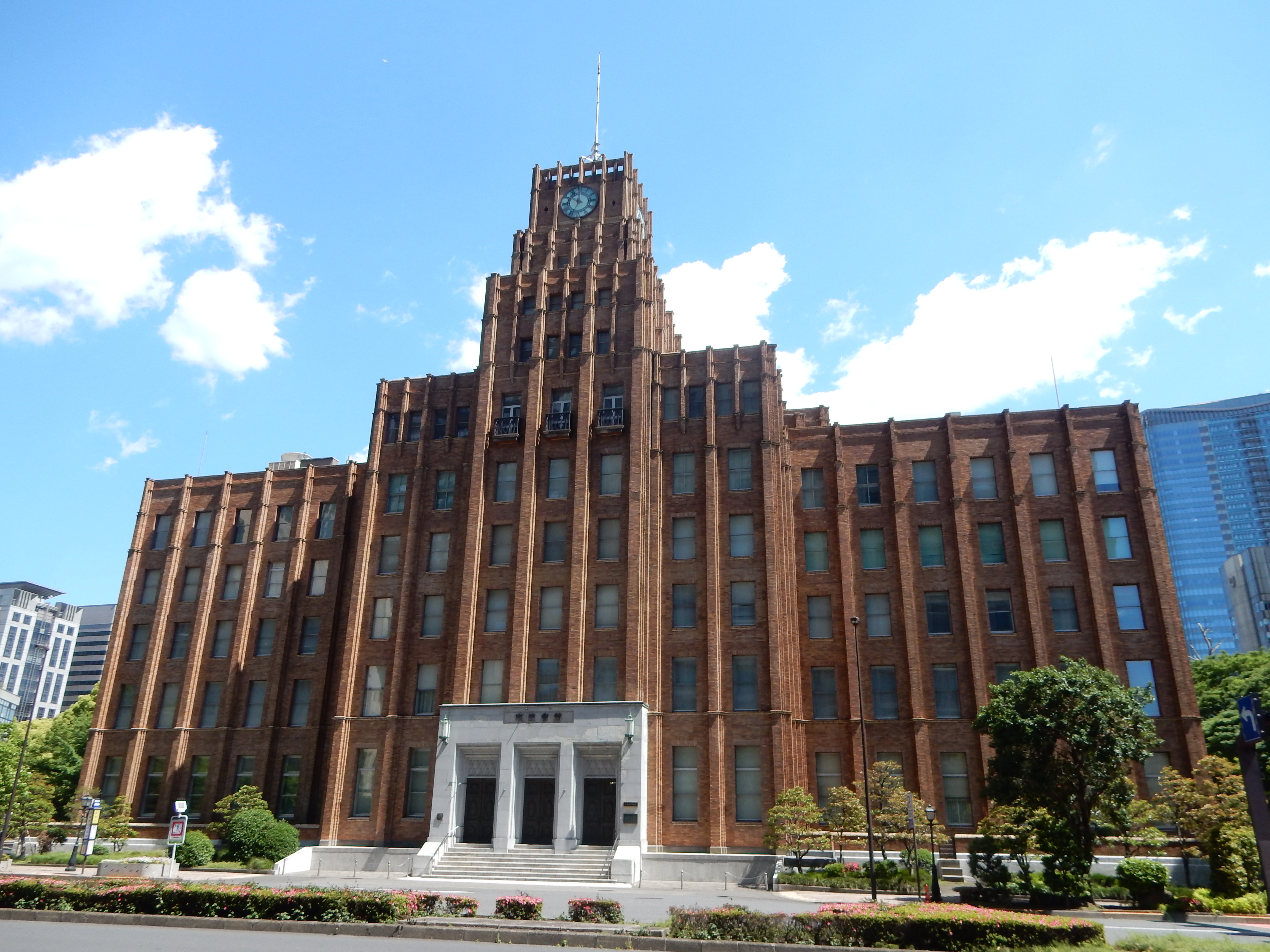 Municipal Research Building (市政会館), located at 1-3 Hibiya Kōen, Chiyoda, Tokyo, Japan